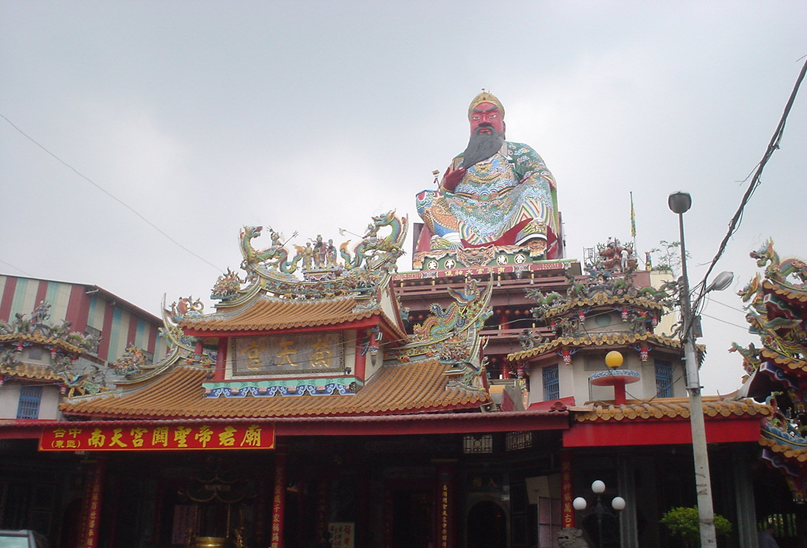 Wood sculpture of Guangong atop the Nantian Taoist Temple in Taichung City, Taiwan.